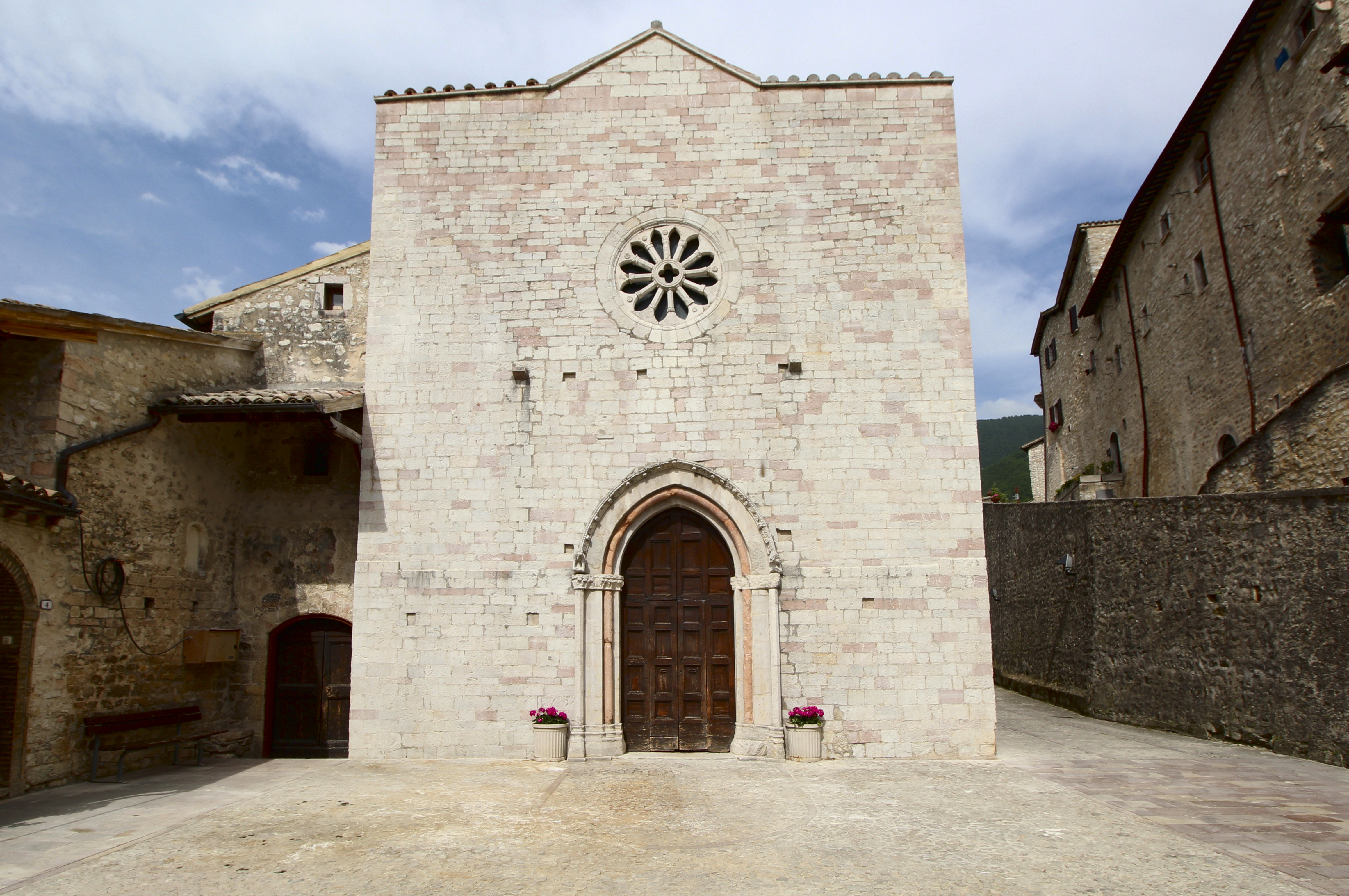 Church Santa Maria, Vallo di Nera, Province of Perugia, Umbria, Italy